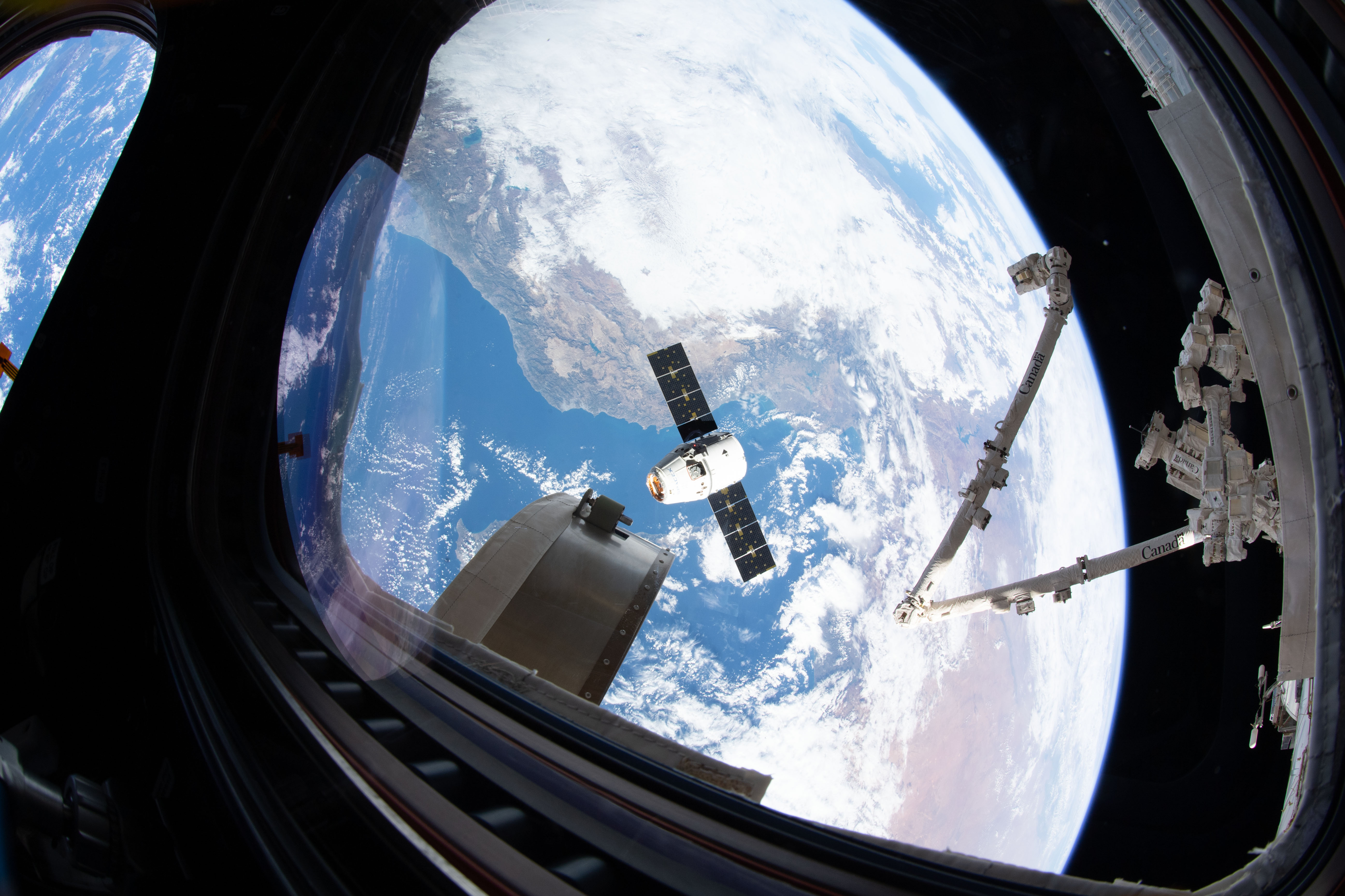 iss061e070168 (Dec. 8, 2019) --- This view from the cupola, the International Space Station's "window to the world," shows the SpaceX Dragon resupply ship slowly approaching the orbiting lab as both spacecraft were orbiting 258 miles above the Mediterranean Sea. The Canadarm2 robotic arm (at right) is poised to reach out and grapple Dragon and install the U.S. space freighter to the Harmony module.